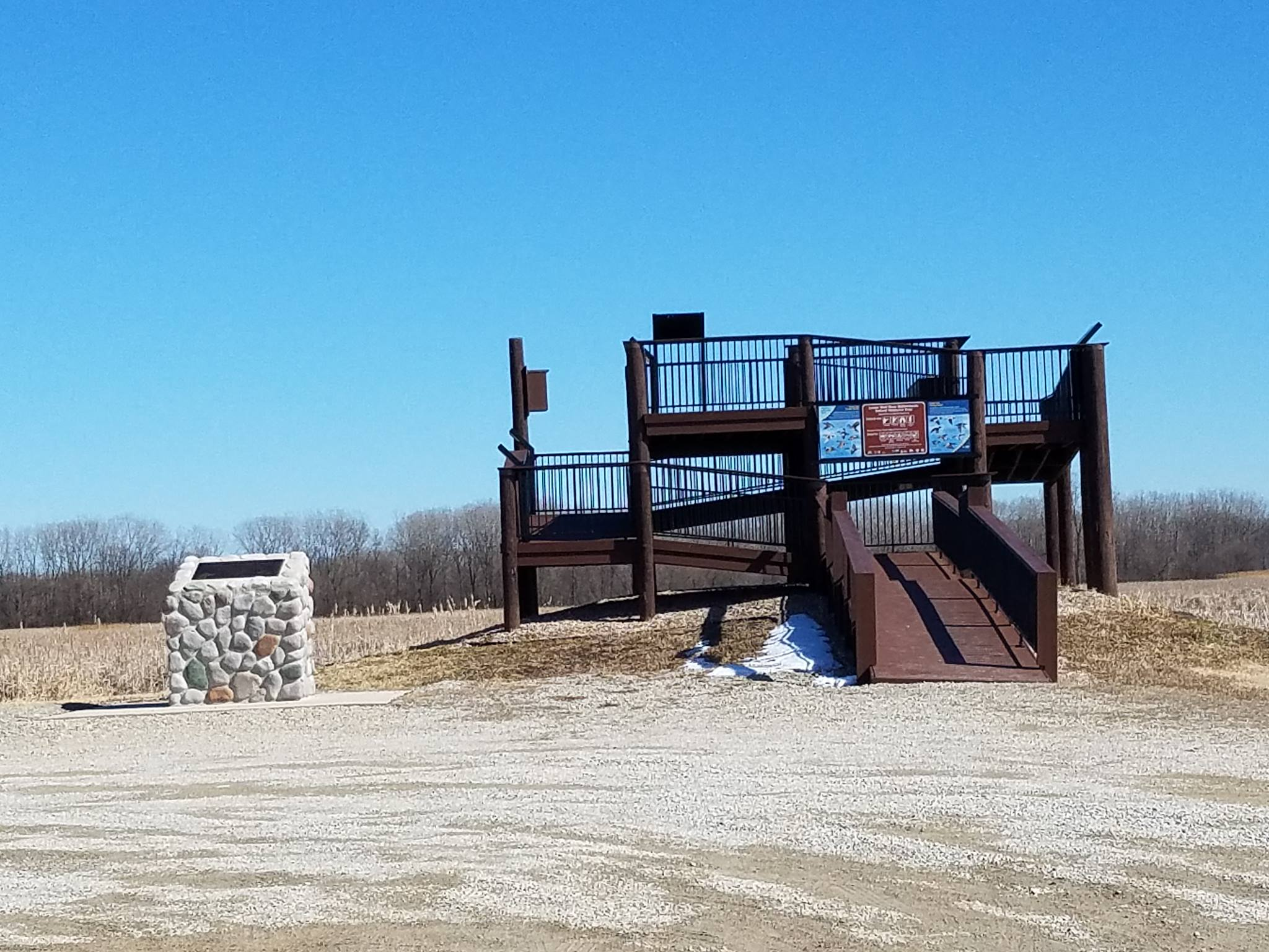 Ducks Unlimited Bergstrom Waterfowl Memorial Observation Deck at Mack State Wildlife Area between Shiocton and Black Creek, Wisconsin.